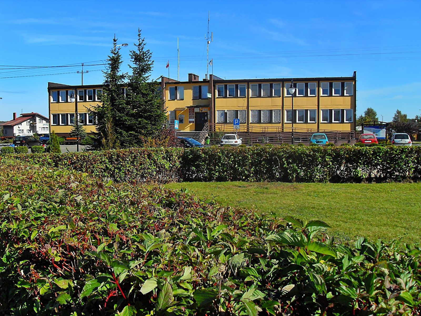 Municipal Office Building Street Nowowiejska